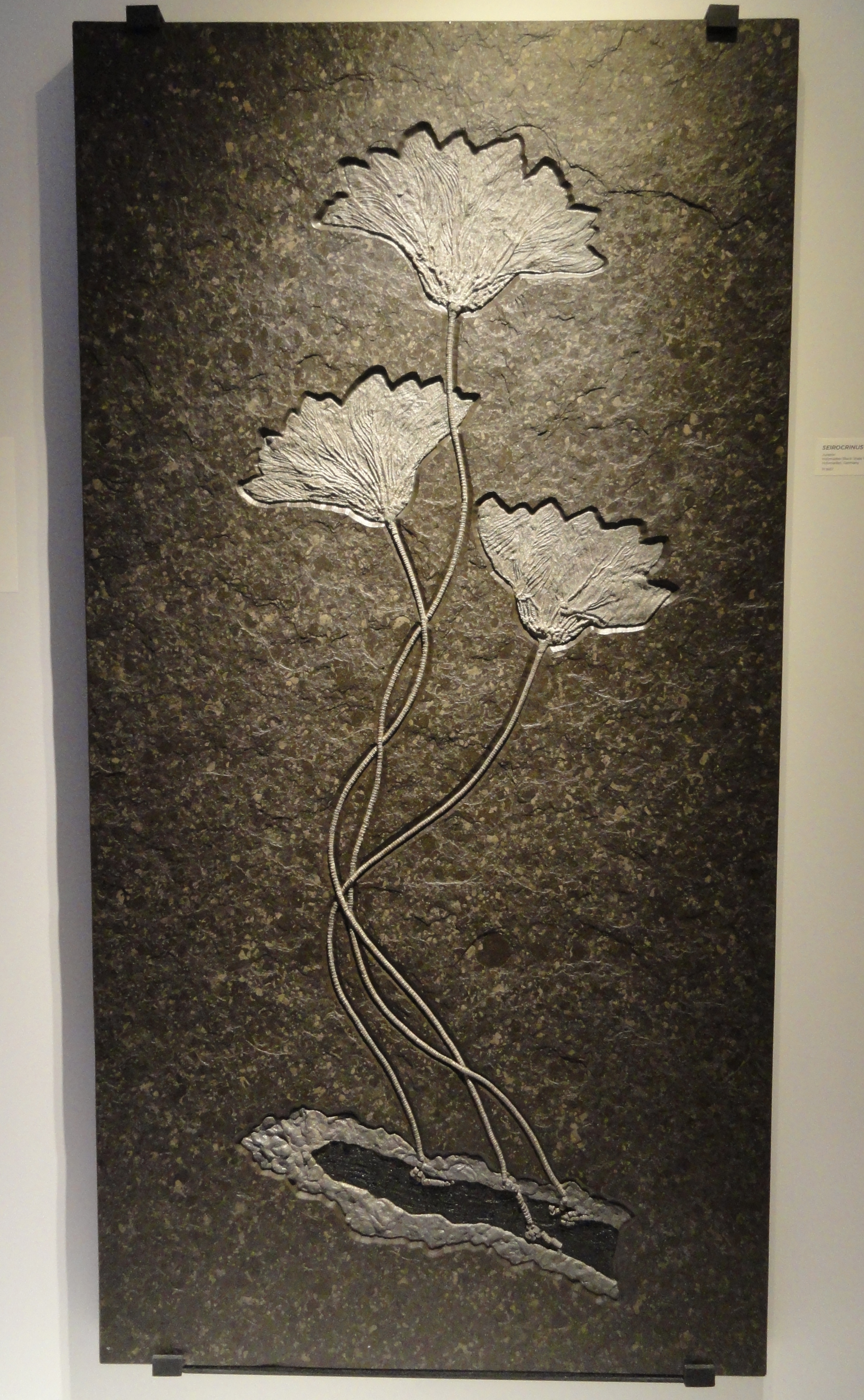 Exhibit in the Houston Museum of Natural Science, Houston, Texas, USA.